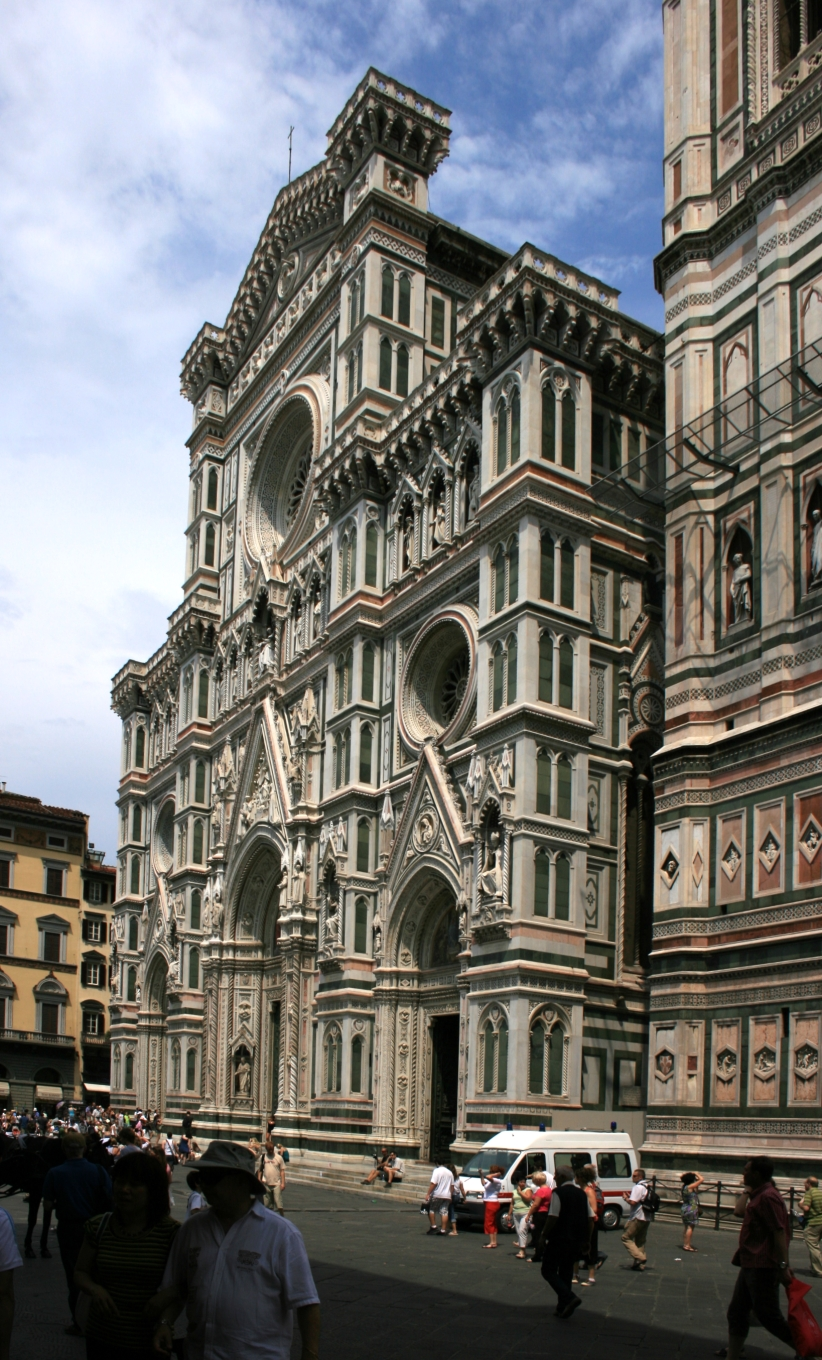 The Cathedral of Florence, Italy.